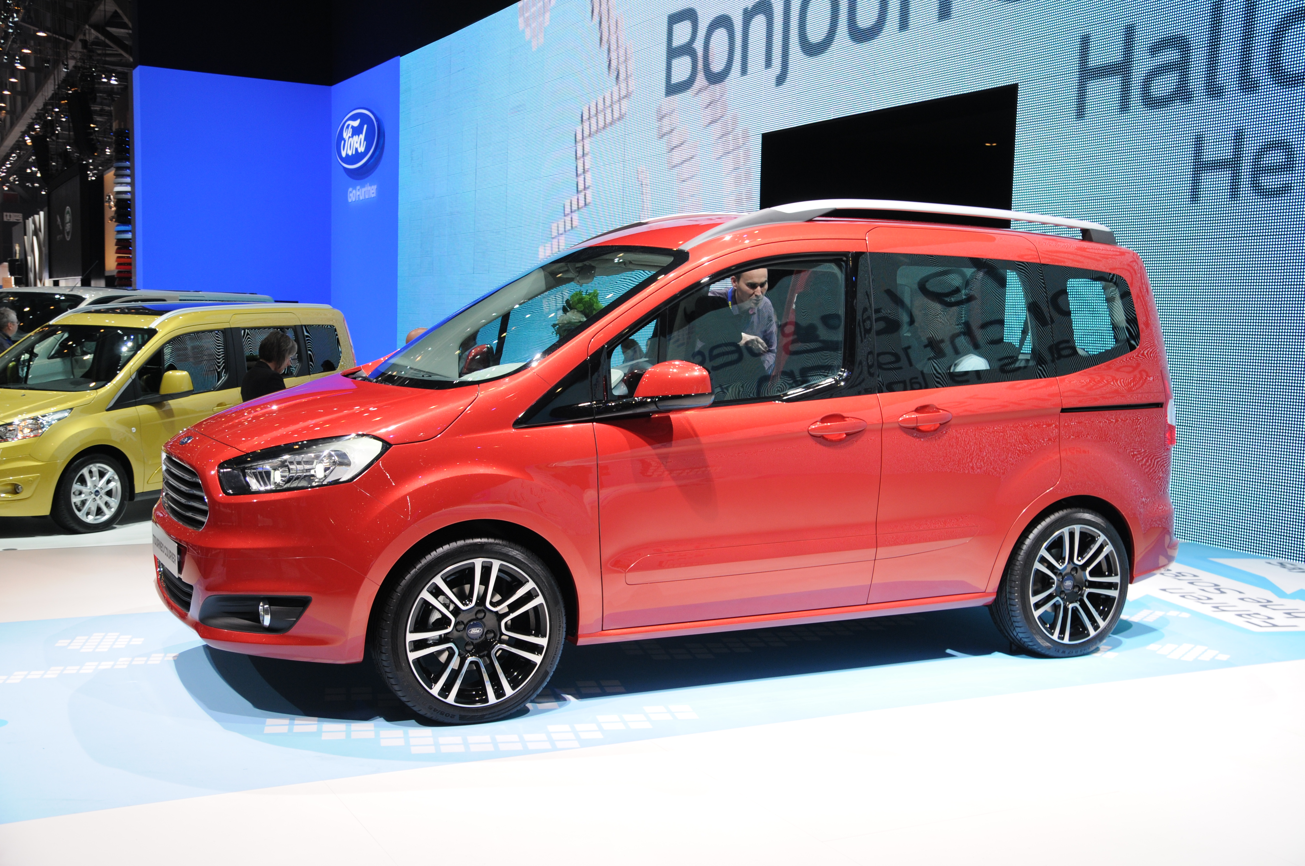 Geneva Motor Show 2013 (photos taken on the first press day)